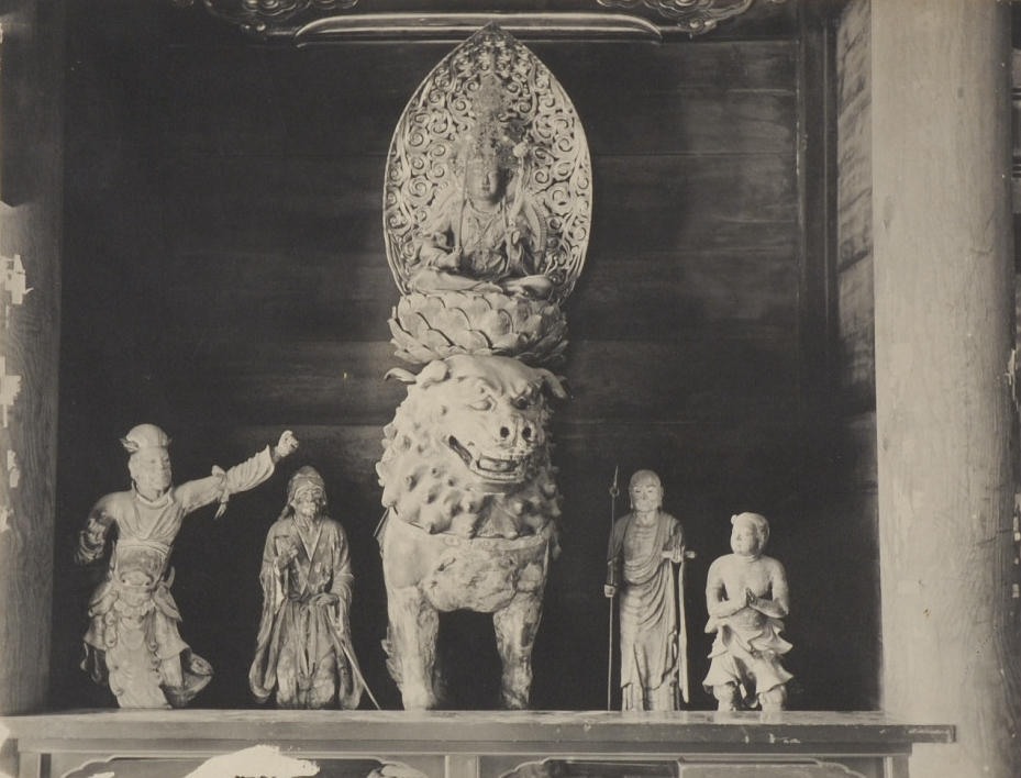 Kishi Monju pentad, Saidaiji, Nara, Nara, Japan